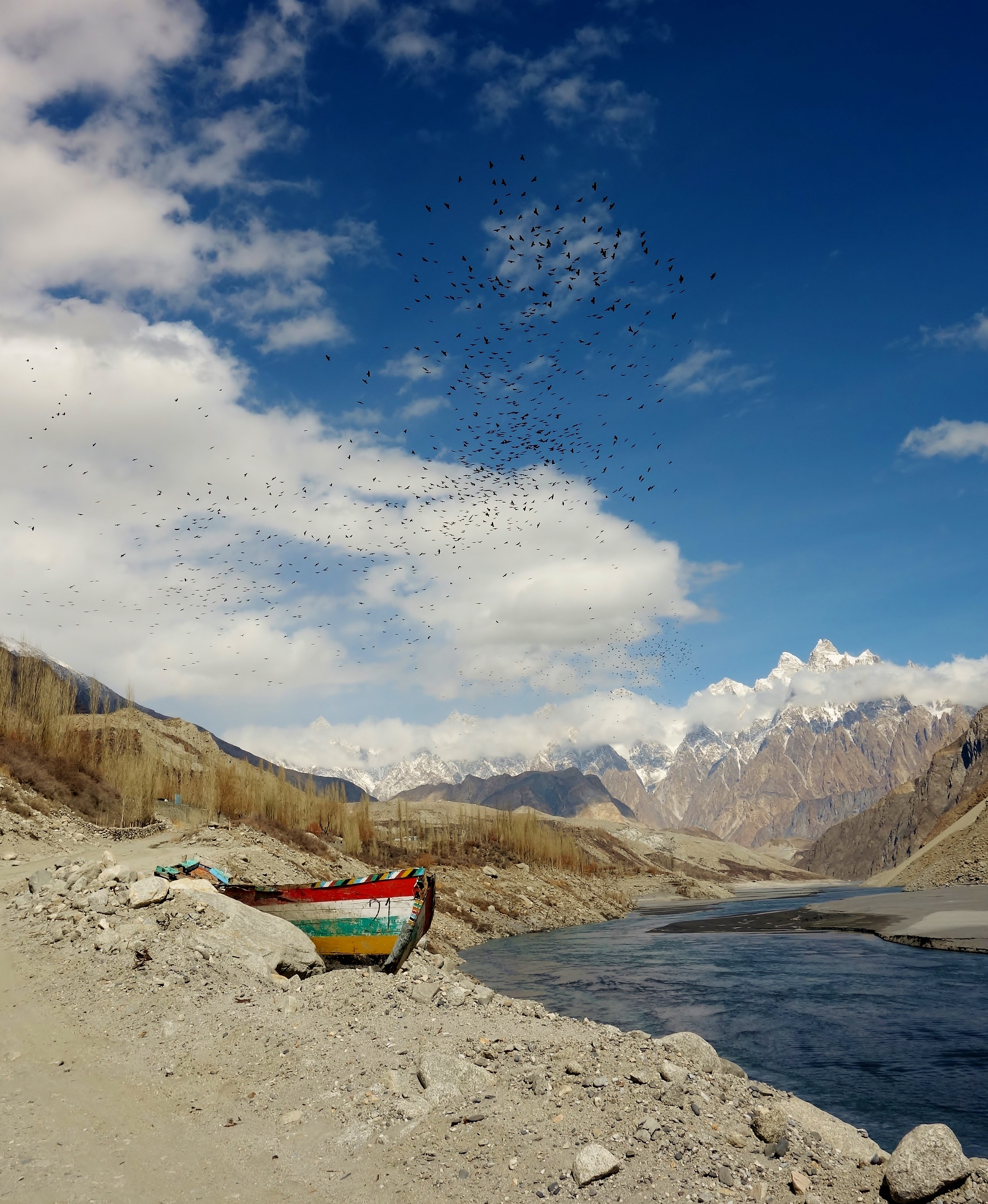 at Gulmit